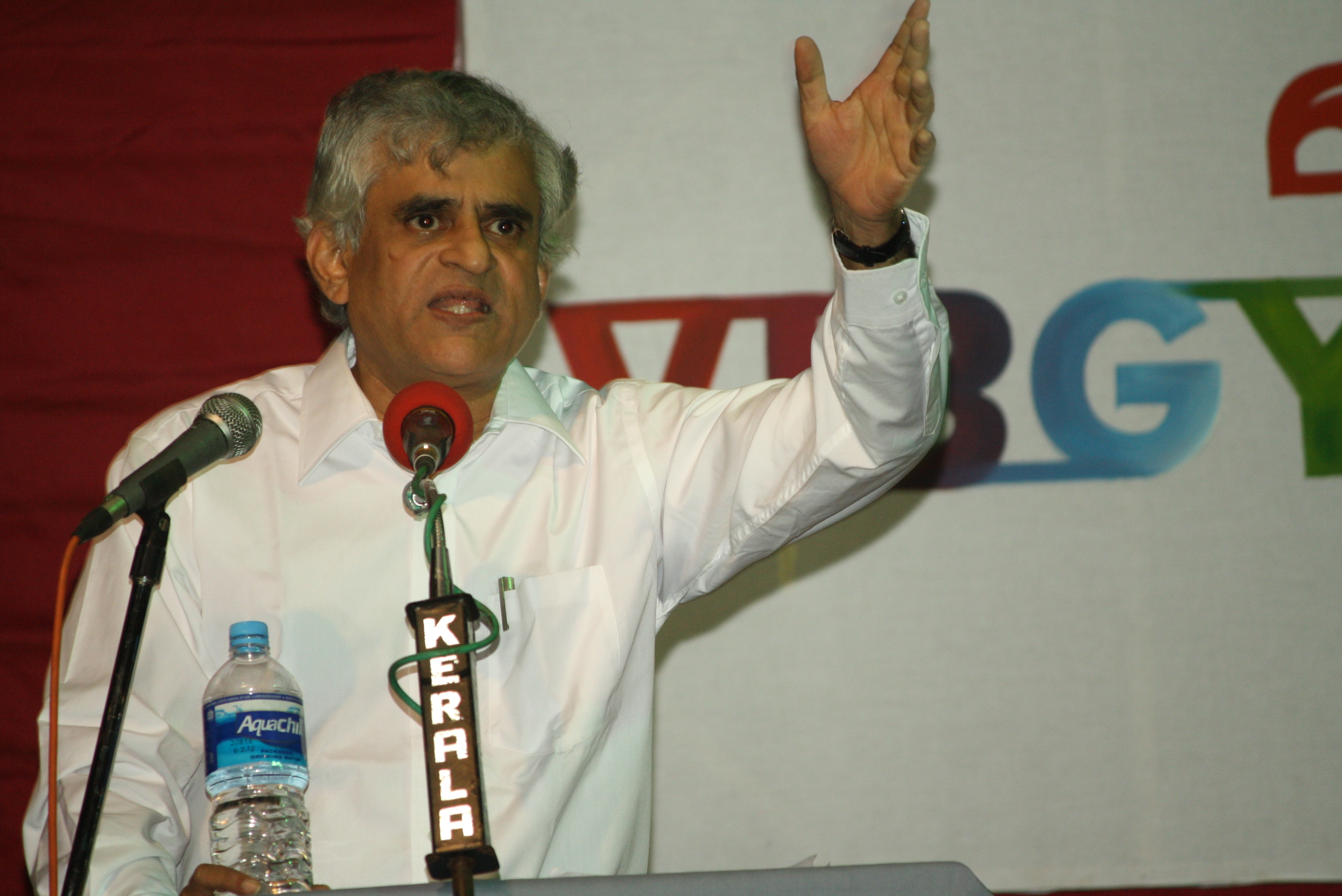 ViBGYOR International film festival 2012, Day 1 This media file is uploaded with Malayalam loves Wikimedia event - 2.